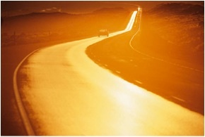 This image illustrates Freud's interpretation of dreams as the royal road to the unconscious.jpg